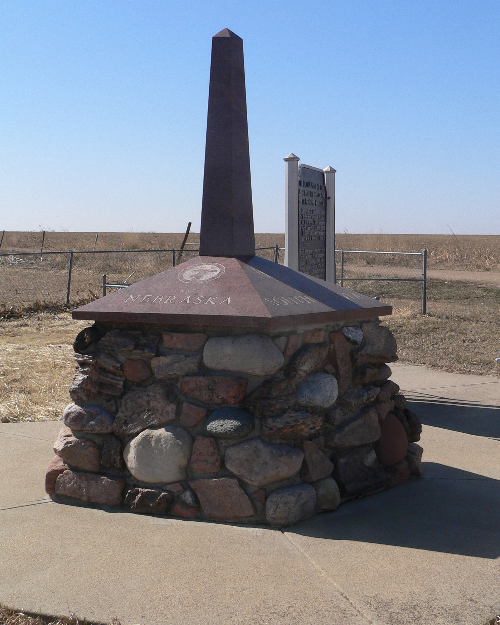 Survey monument JF00-072, located on Nebraska-Kansas state line at intersection of Nebraska counties Thayer and Jefferson and Kansas counties Washington and Republic; marking the intersection of 40 degrees north latitude and the Sixth Principal Meridian. Monument and historical marker, seen from the northeast.